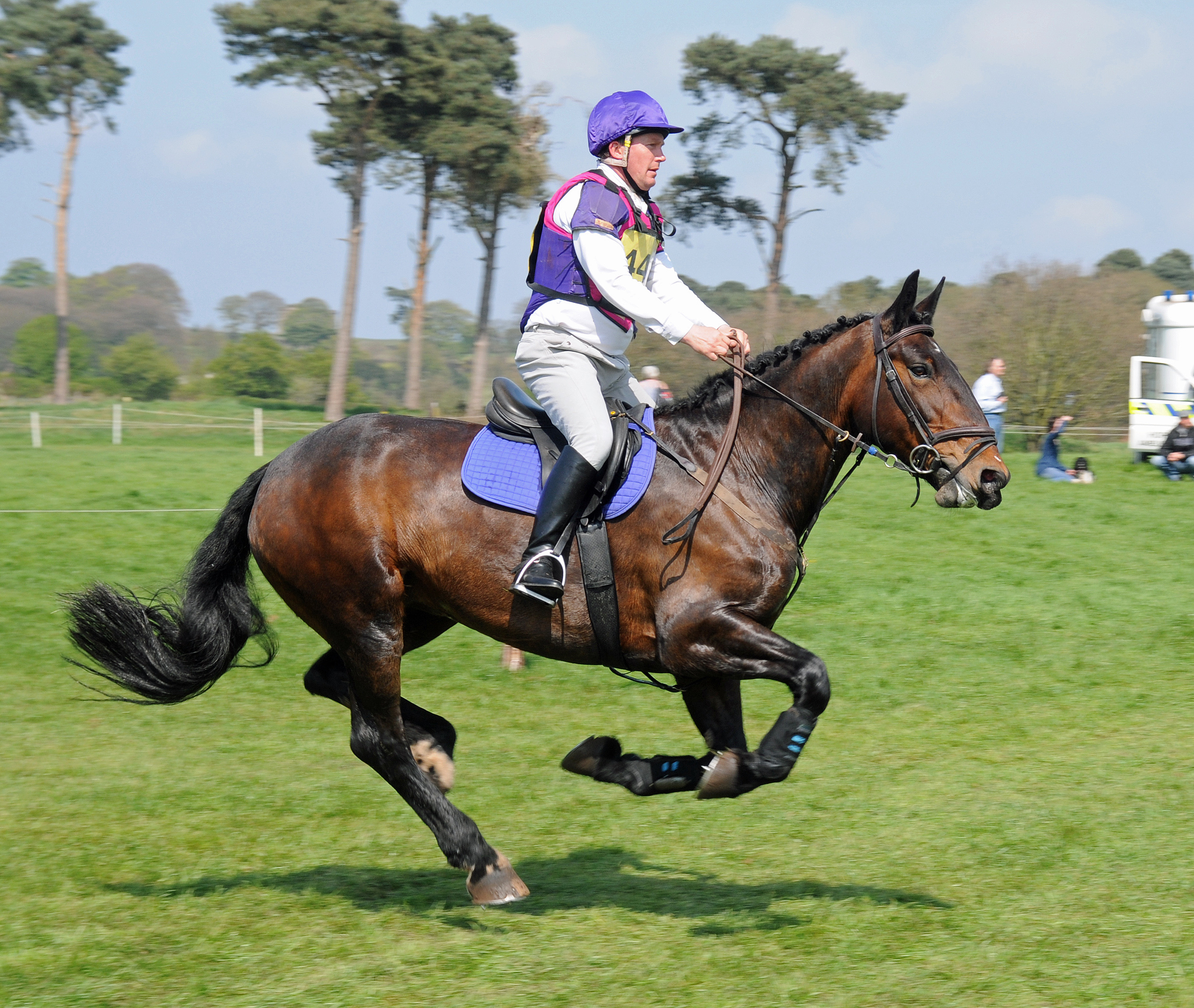 Heavier than the standard sporthorse; perhaps a 1st generation draught/TB mix